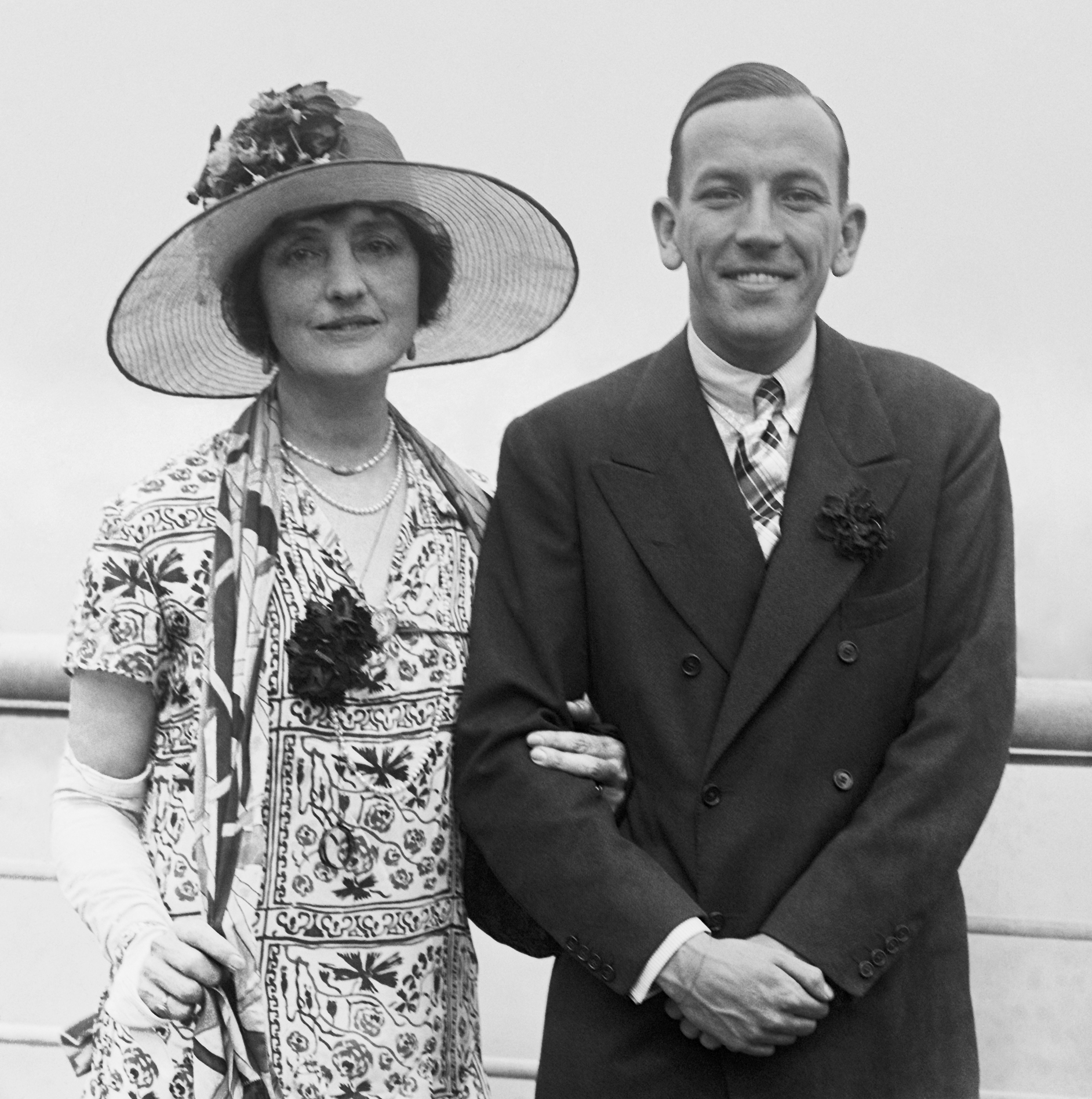 English actress Lilian Braithwaite DBE (1873–1948) with Noël Coward (1899-1973). They co-starred in his play, The Vortex.